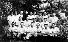 A past left-wing student society of the former Private Tsui-Wen High School in 1948